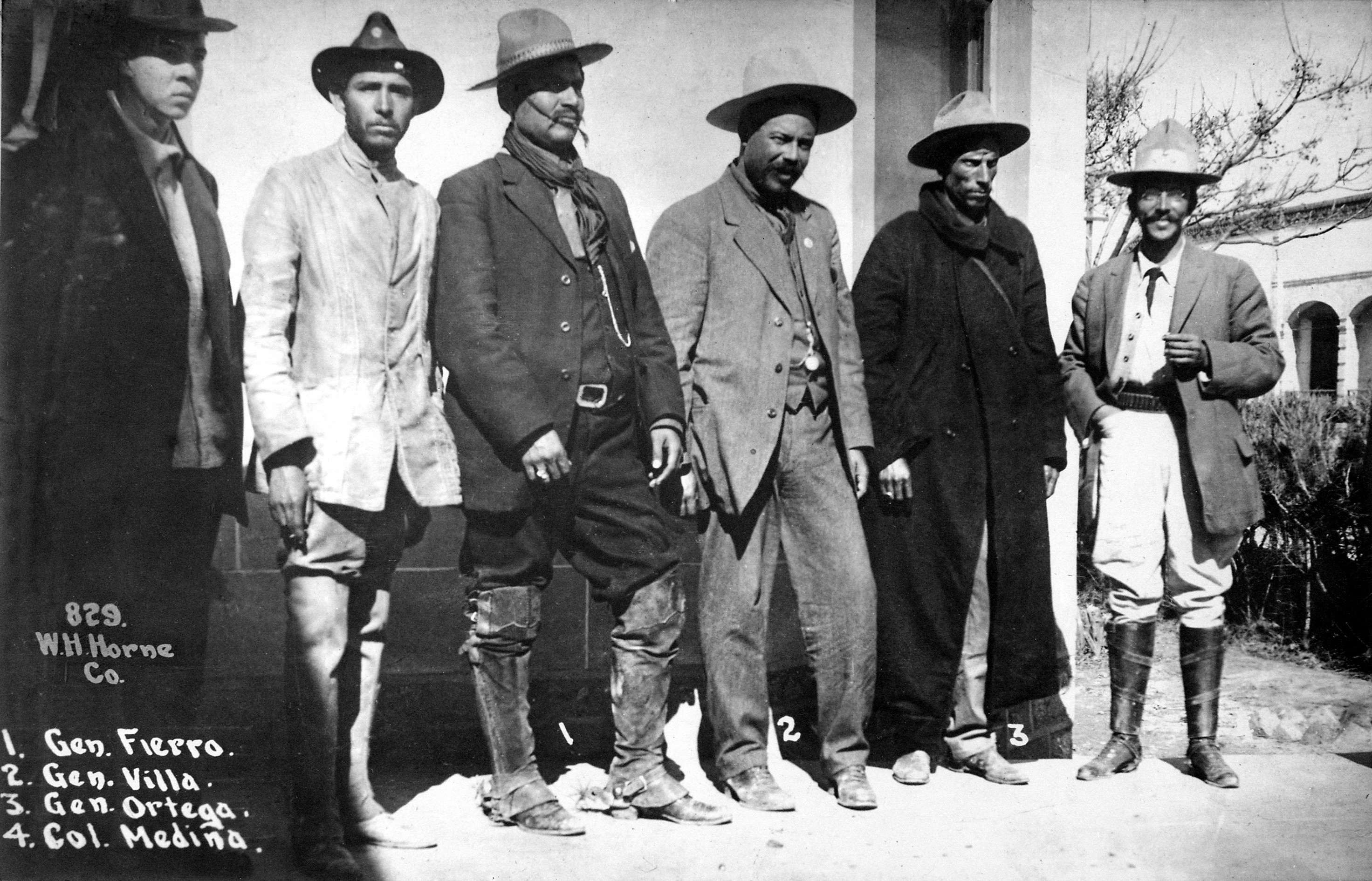 The last four men on the righthand side are, from left to right: Mexican revolutionaries General Rodolfo Fierro, Pancho Villa, General Toribio Ortega and Colonel Juan Medina.